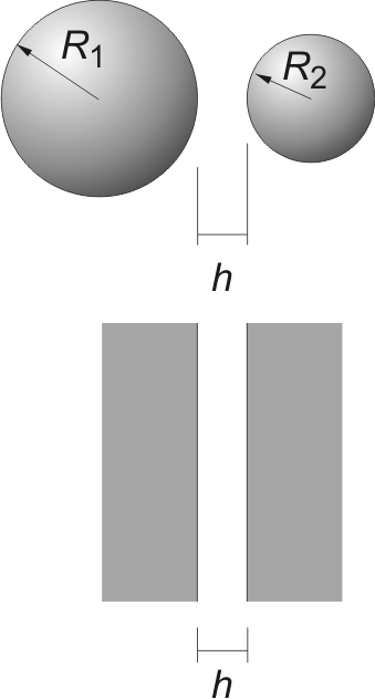 Scheme1 for the Derjaguin Approximation Article